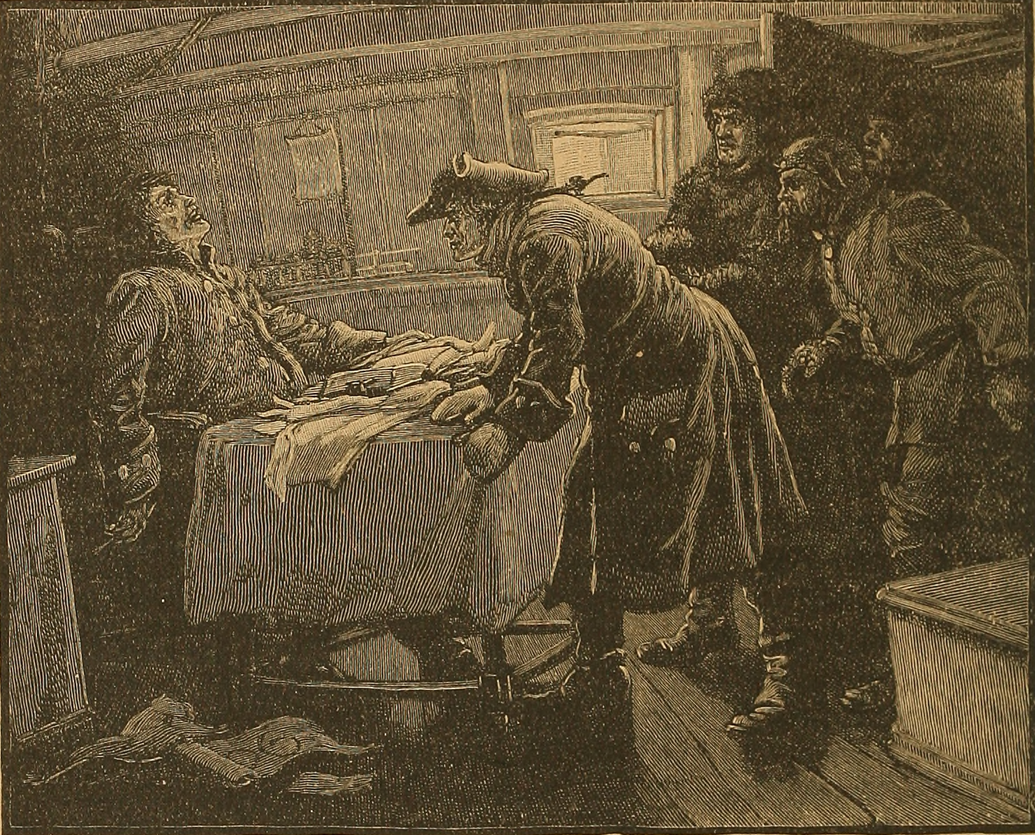 Captain Warrens peers into the face of a dead man on the frozen ship. An illustration to the story "A Frozen Crew" from "Wonderful Deeds and Adventures", N. Y. 1893.